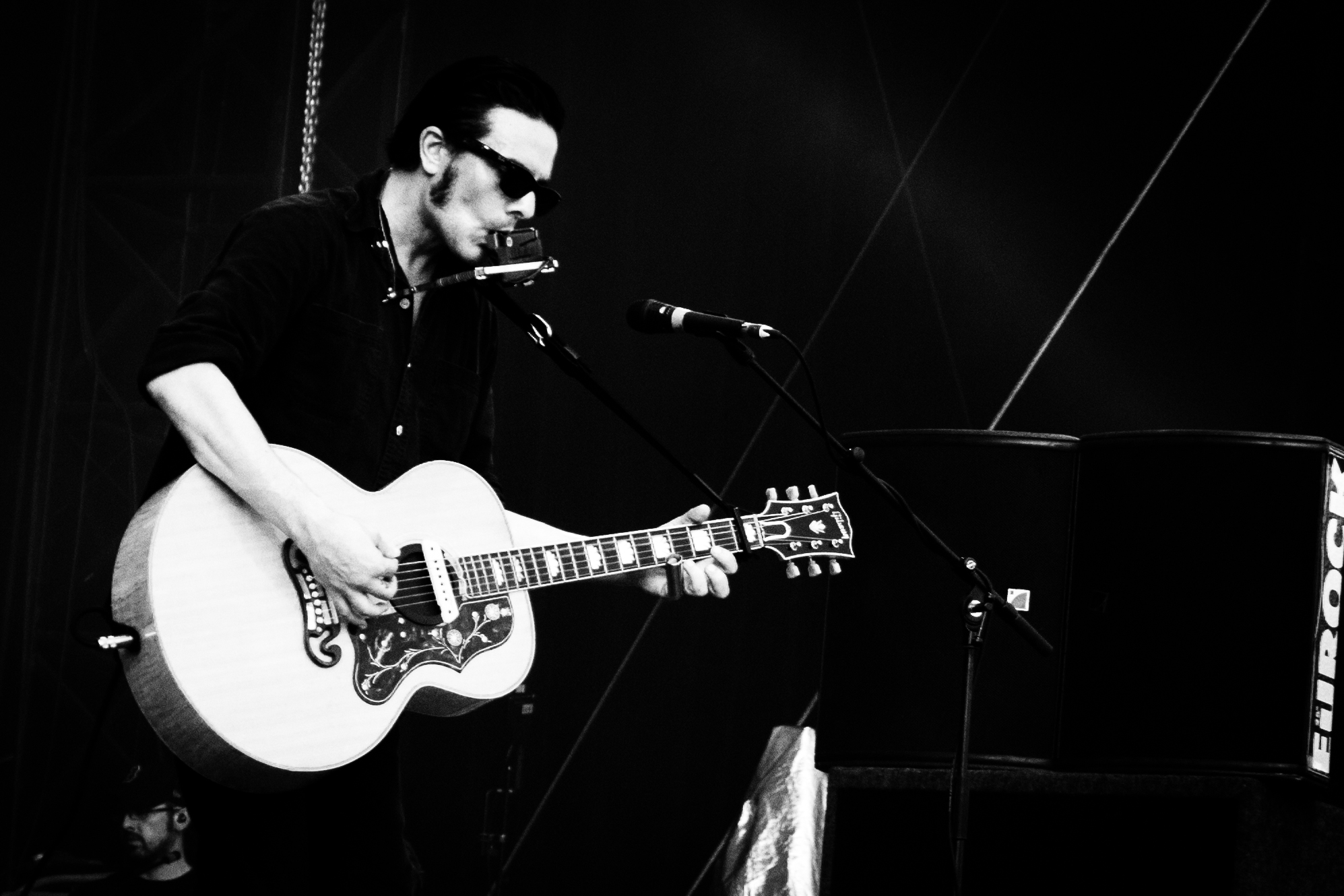 Follow me on facebook Twitter : @didyPhotography All the photographies I've made are now under CC0 (Creative Commons Zero) CC0 - learn more To the extent possible under law, Eddy BERTHIER has waived all copyright and related or neighboring rights to Black Rebel Motorcycle Club @ Eurockéennes de Belfort 2013. This work is published from: France.